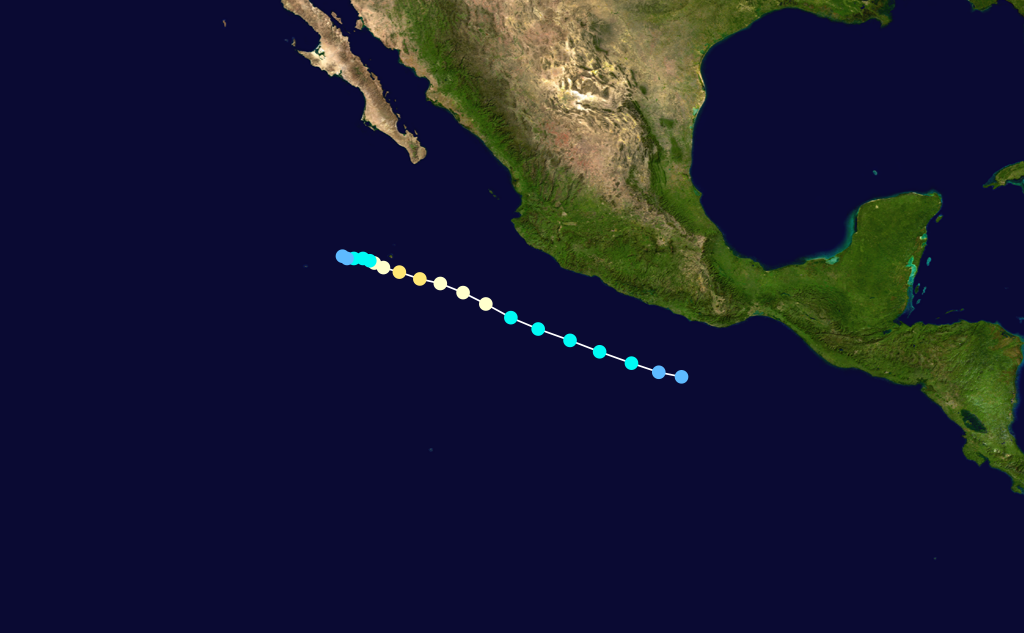 Hurricane Adrian (1999) track. Uses the color scheme from the Saffir-Simpson Hurricane Scale.